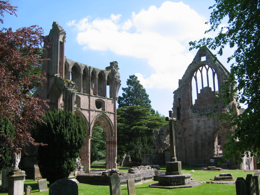 Ruins of Dryburgh Abbey, Scottish Borders, Scotland